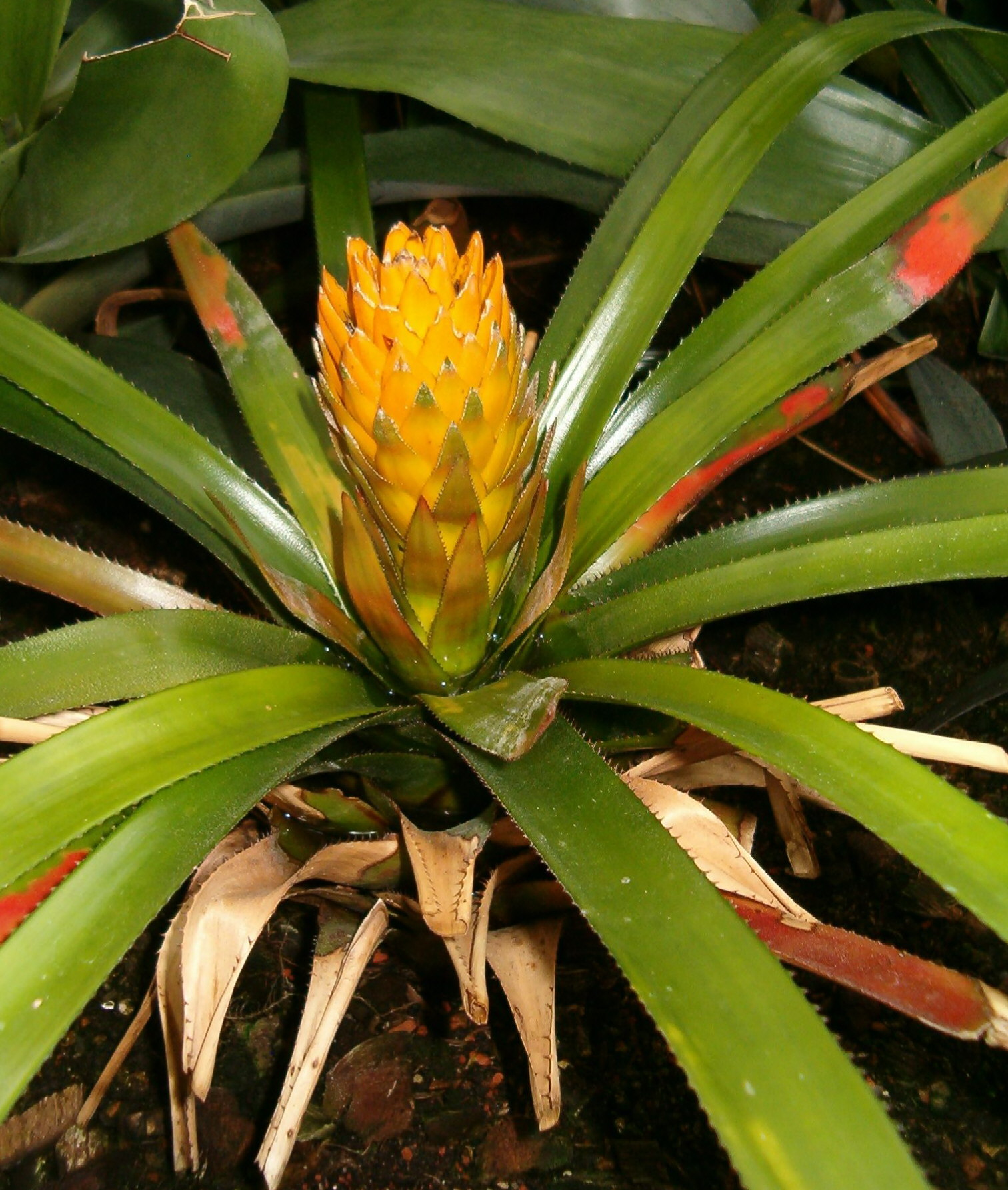 Habitus and Inflorescence Location: Botanical Gardens Berlin